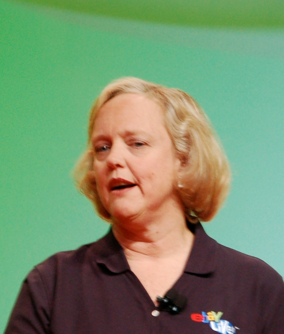 Former eBay CEO Meg Whitman, speaking at eBay Live